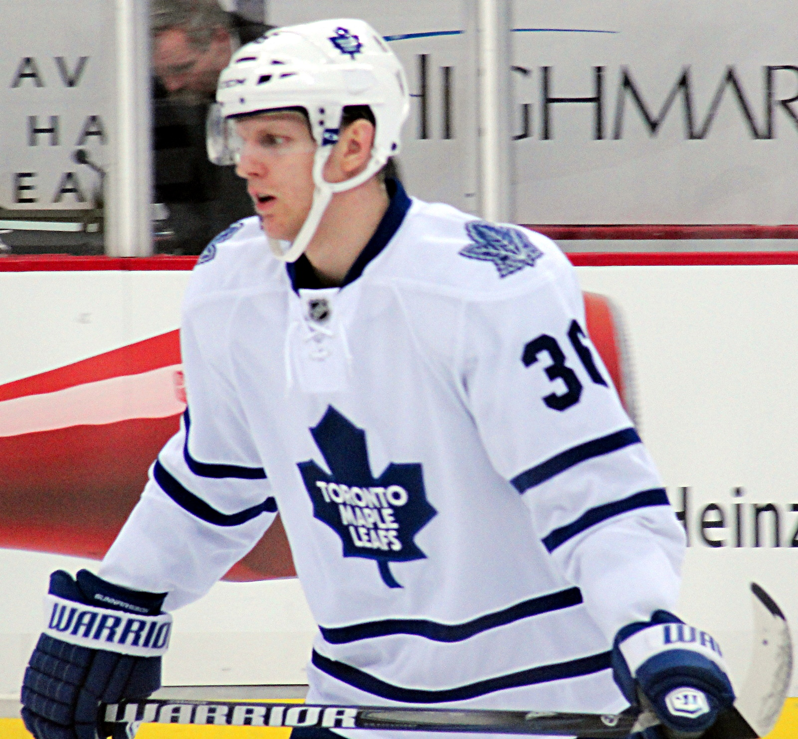 Toronto Maple Leafs defenseman Carl Gunnarsson skates against the Pittsburgh Penguins, March 7, 2012 at Consol Energy Center in Pittsburgh, PA.